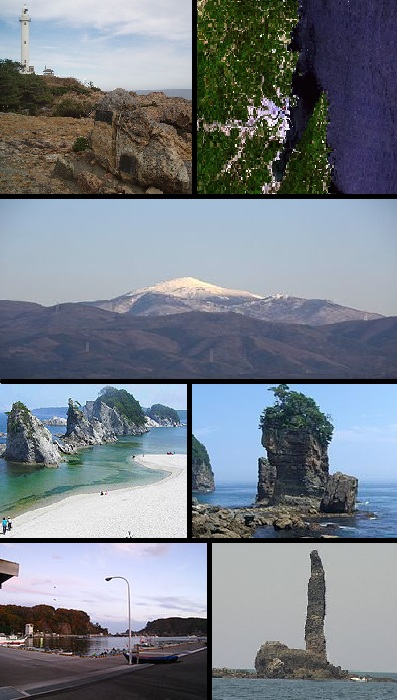 Miyako city montage